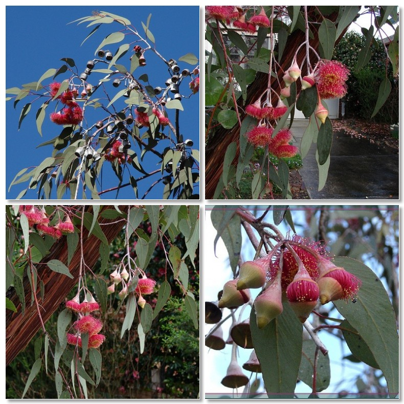 My first load to Flickr this year. - my favourite Australian tree - Eucalyptus caesia - Silver Princess, or Gungurru (aboriginal name) I felt in love with this tree from the first sight many years ago, when I saw it in Western Australia, where it is native to. It is absolutely charming elegant tree with weeping branches and amazing pink-red large pendant flowers in late winter-spring. The tree has distinctive thin silver-white coating on the buds, fruit and stems. (name caesia from Latin, caesius - light grey). It has attractive urn-shaped "gumnuts" (seedpods). Just beautiful graceful tree. .au/e-cae.html It does not grow in tropics, it would not grow in Brisbane. I photographed this tree late winter in Melbourn at returning from my skiing trip in Australian Alps. I could not decide what shot to load, as I like all of them. I've loaded 4 photos. May be you let me know which one you like more. 1. Up on the sky - , 2. Silver Princess , 3. Weeping brunches , 4. Crackling flowers All photos best to see larger of course :)